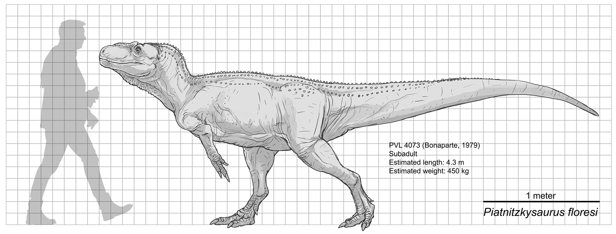 Piatnitzkysaurus floresi reconstruction based on PVL 4073.